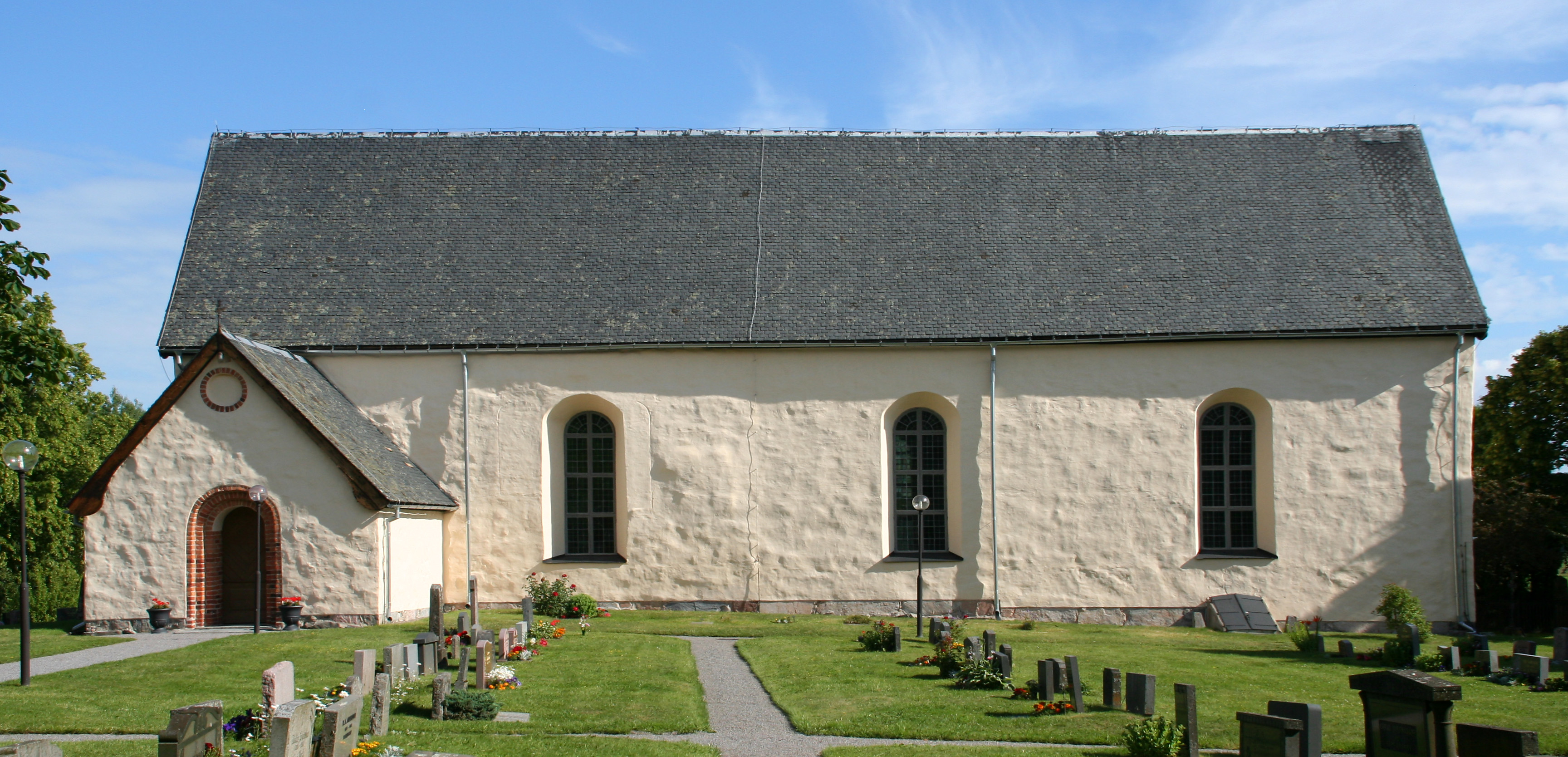 Husby-Långhundra Church in Uppland, Sweden